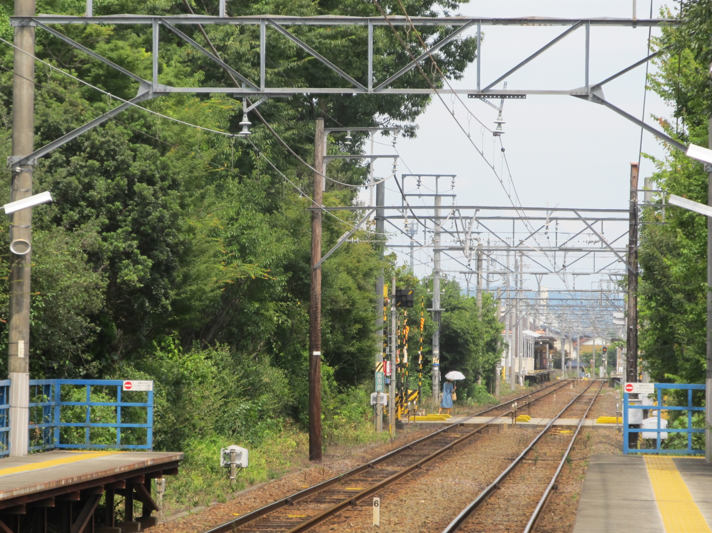 Nagoya Railroad Kakamigahara Line Shiminkōen-mae Station Platform